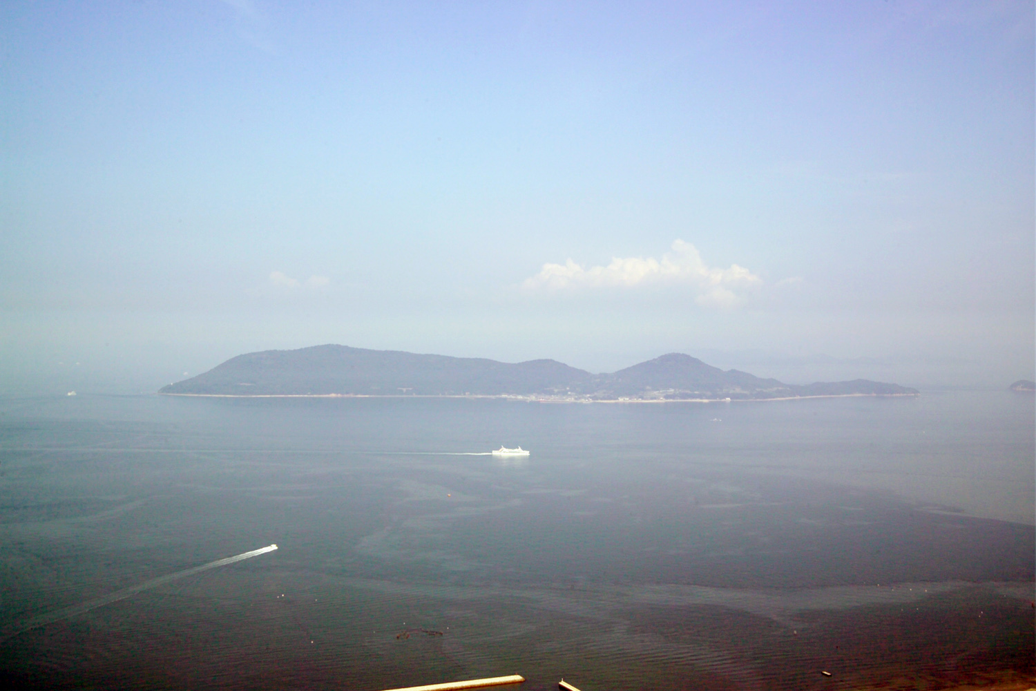 This photograph shows Megijima 女木島, an island in the Inland Sea, administered by the city ofTakamatsu, Kagawa Prefecture, Japan. The view is from Yashima. I took the photo and contribute my rights in the file to the public domain.